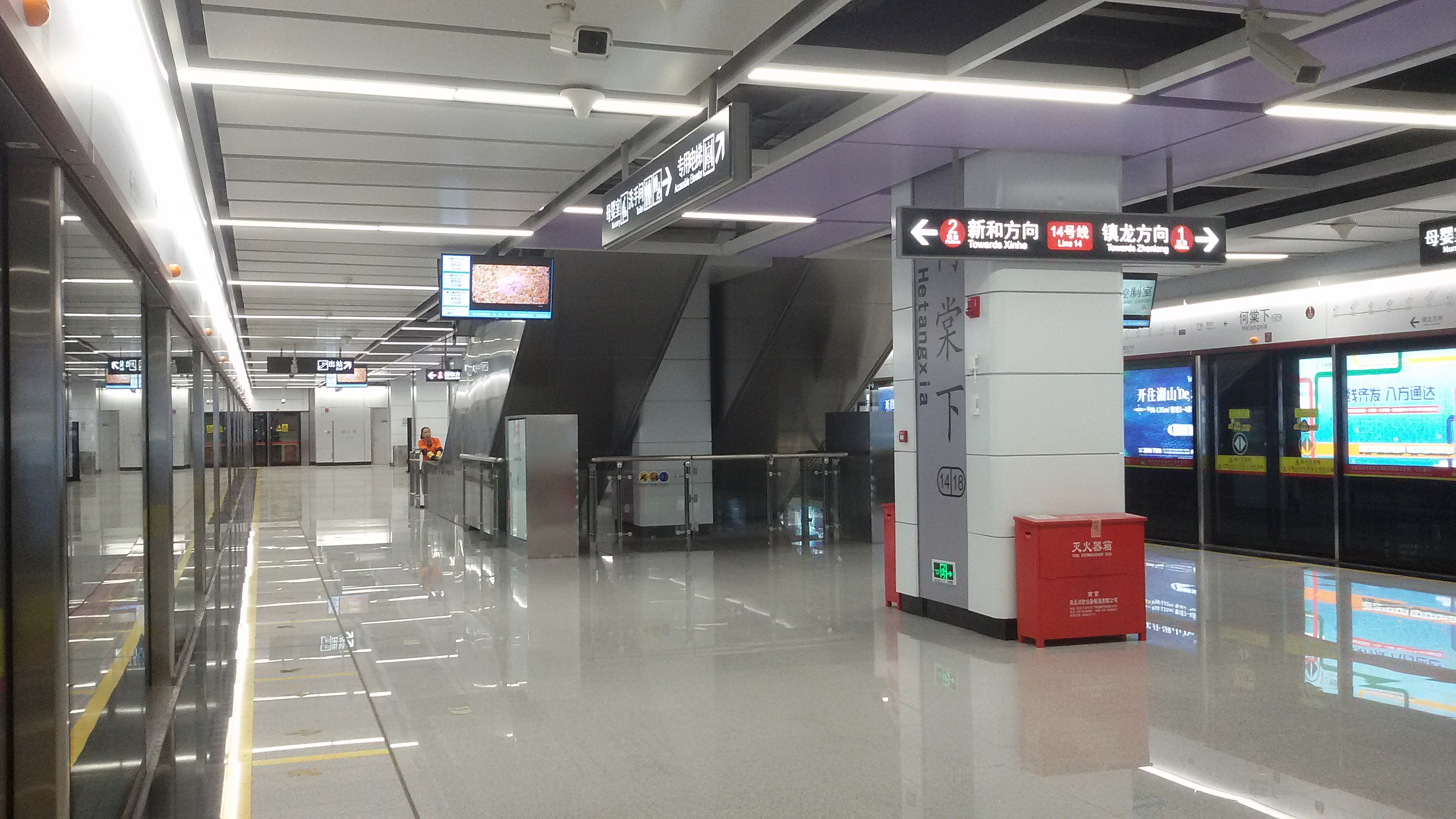 Station Platform for Hetangxia Station in Guangzhou Metro.